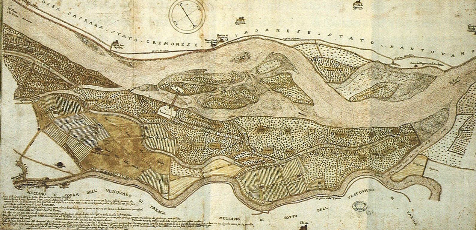 Ghiare bonvisi map of 1683